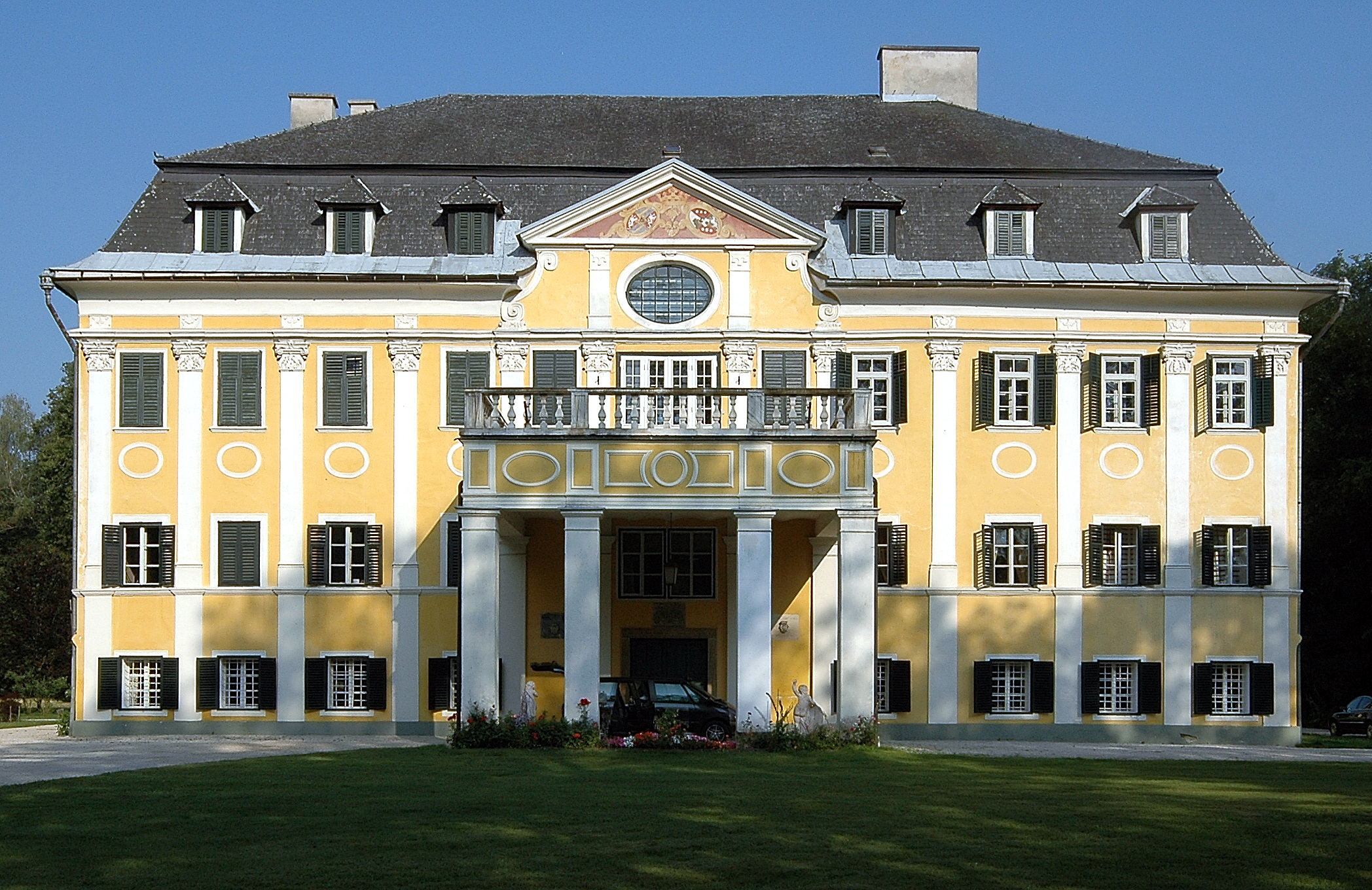 Castle Ebenthal (propriety of the counts of Goëss), market town Ebenthal, district Klagenfurt Land, Carinthia, Austria, EU